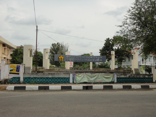 Faculty of Medicine, Syiah Kuala University